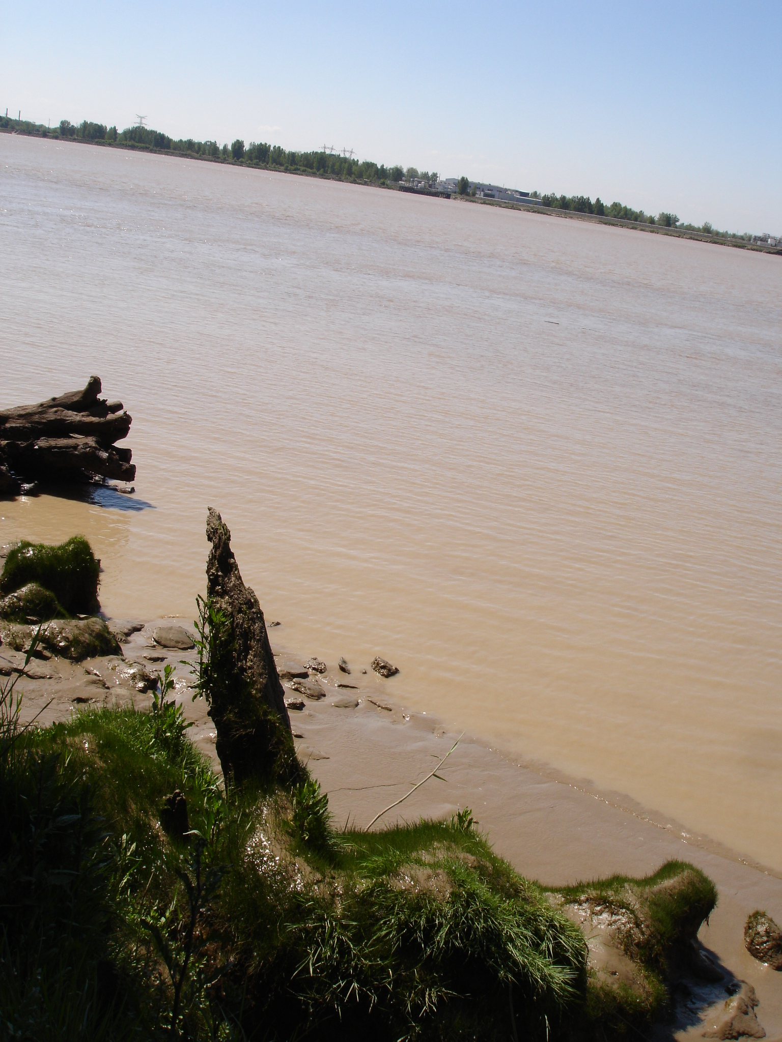 France, Gironde (33), Gironde estuary